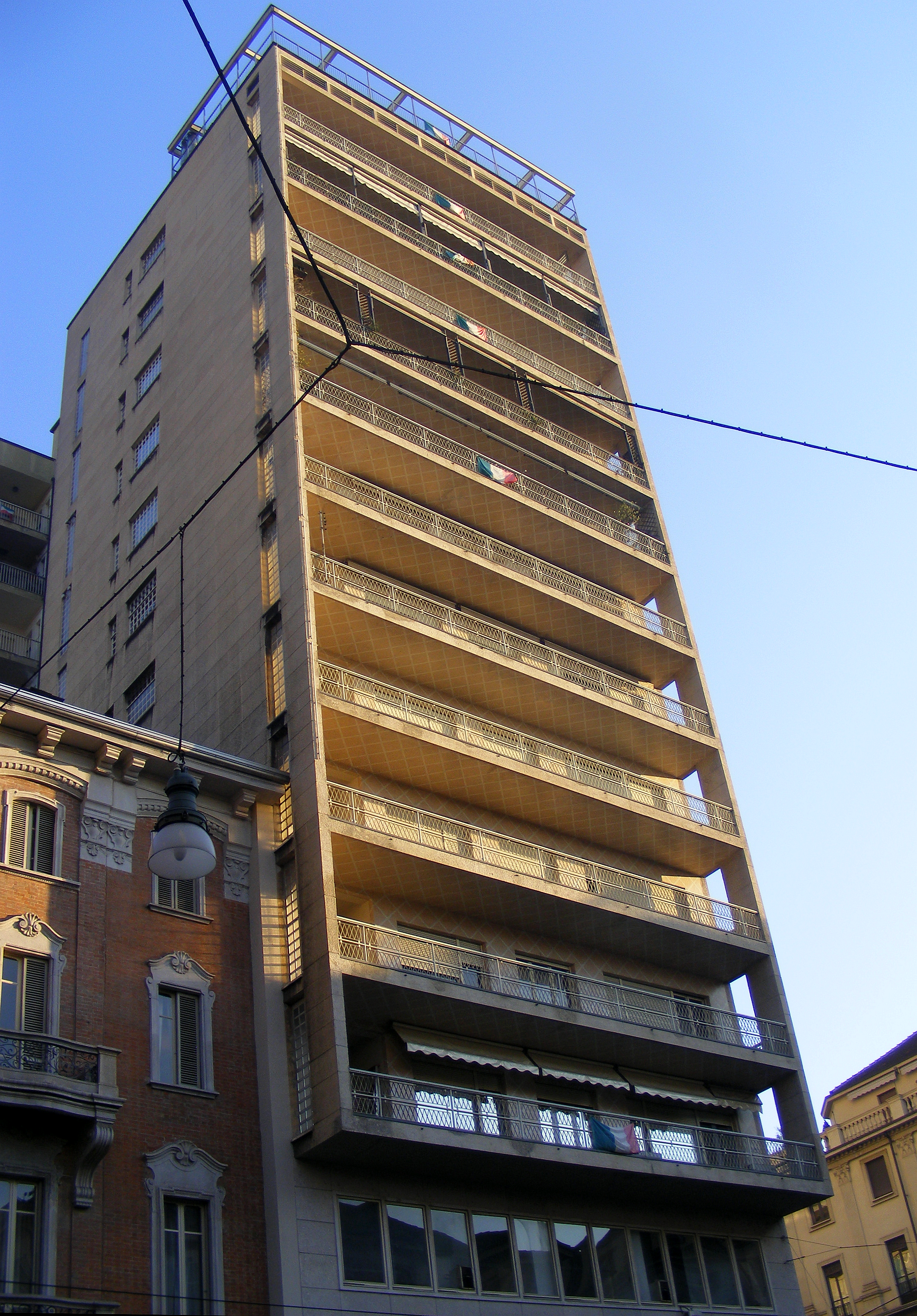 Casa Saiba (Turin, Italy) from corso Matteotti